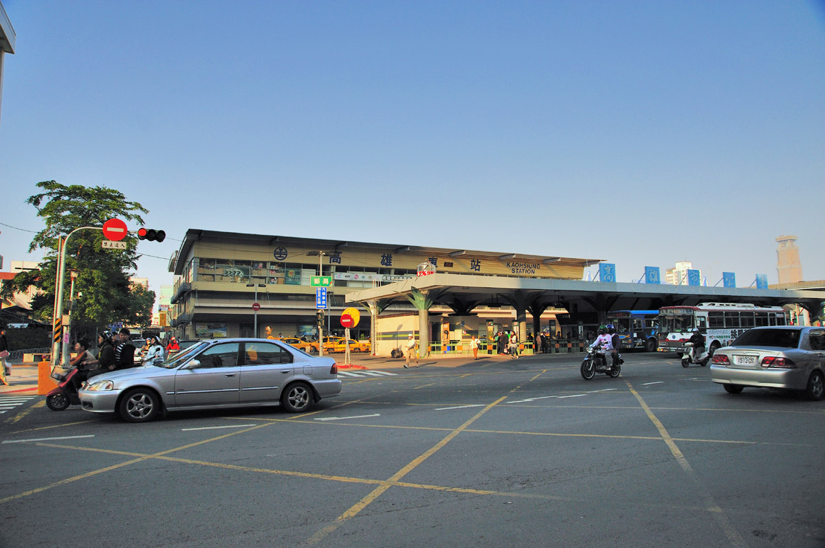 KaoHsiung is a main station of TRA Western Main Line and Pingtung Line, and also served as the main station of Kaohsiung city.